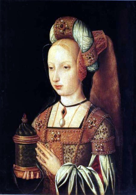 Joanna the Mad (Joanna of Castile), the young Duchess of Burgundy, portrayed in the style of a portrait of her predecessor and mother-in-law Mary of Burgundy